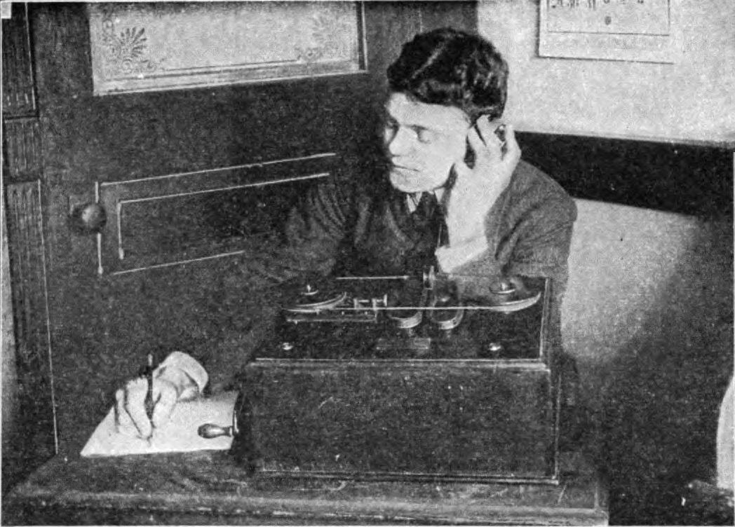 A radio operator receiving a wireless telegraphy message using a Marconi magnetic detector, an early radio receiving instrument invented by Guglielmo Marconi in 1903.